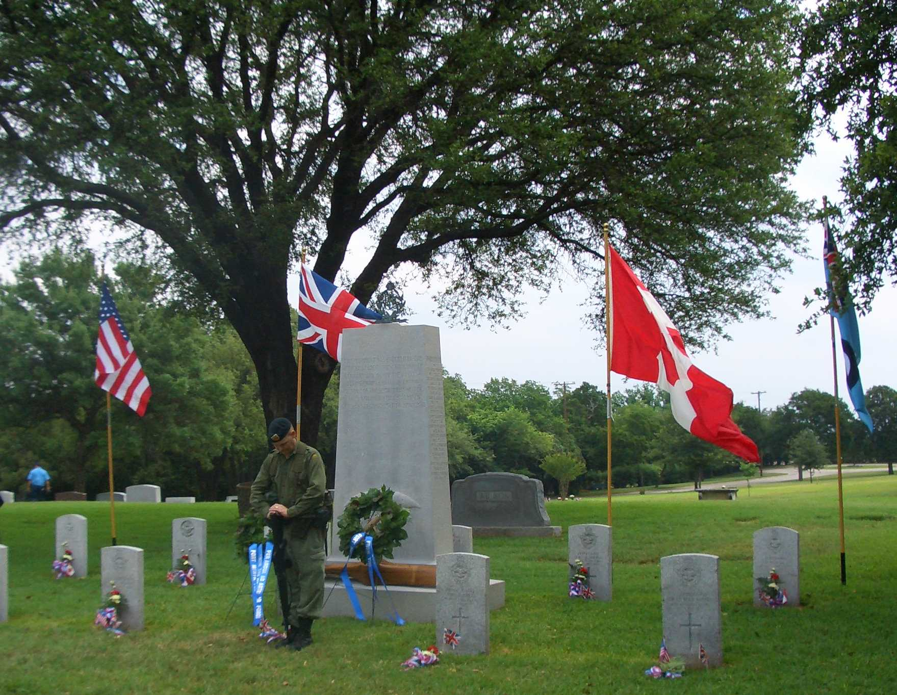 Guard at Commonwealth War Graves, Greenwood Cemetery, Fort Worth, Texas